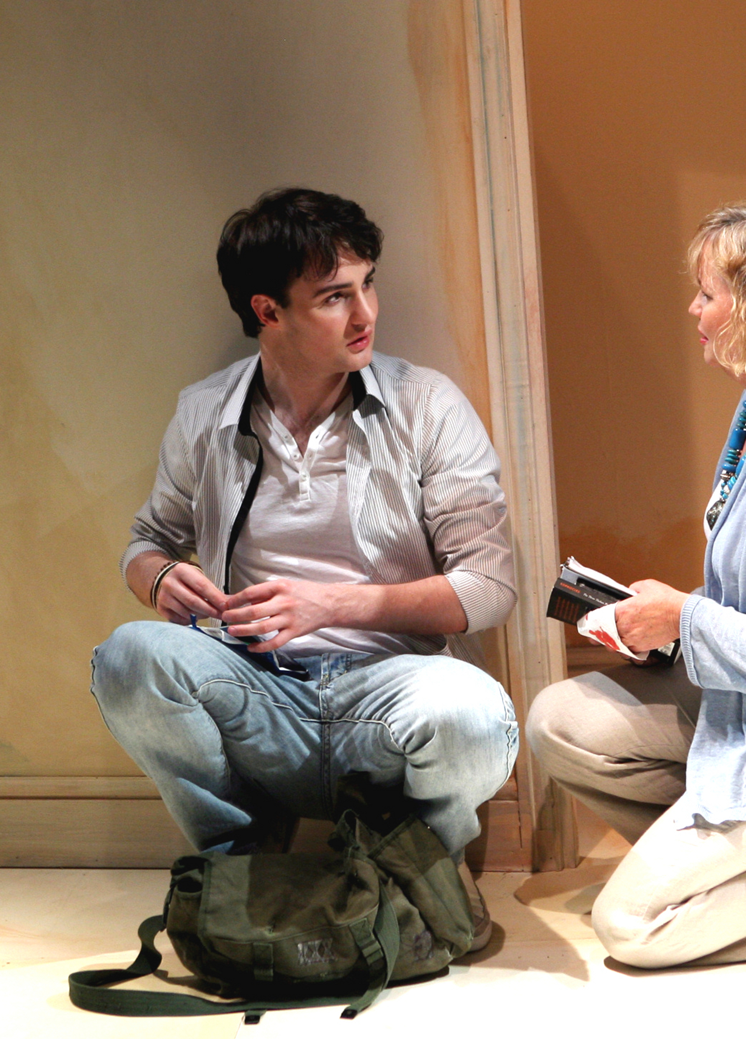 Jos Vantyler in Propchecy 2008